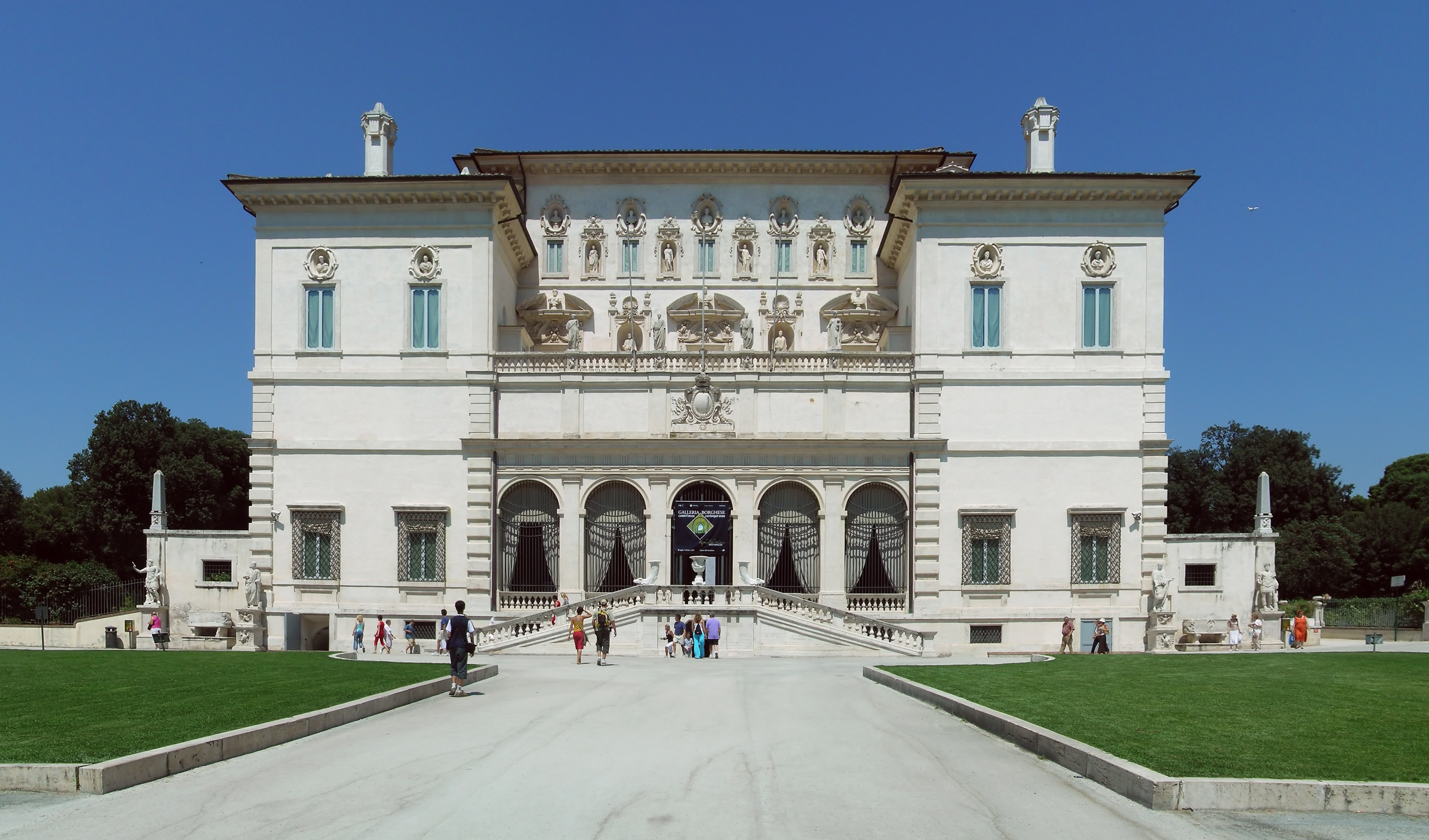 Facade of the museum Galleria Borghese in Rome, Italy. I made it taking 3 different pictures and stitching them together with Hugin. I have also inverted the prospective. Post-processed with Gimp.